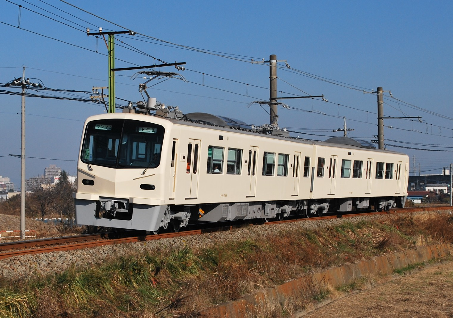 Joshin Electric Railway 7000 series EMU set 7001